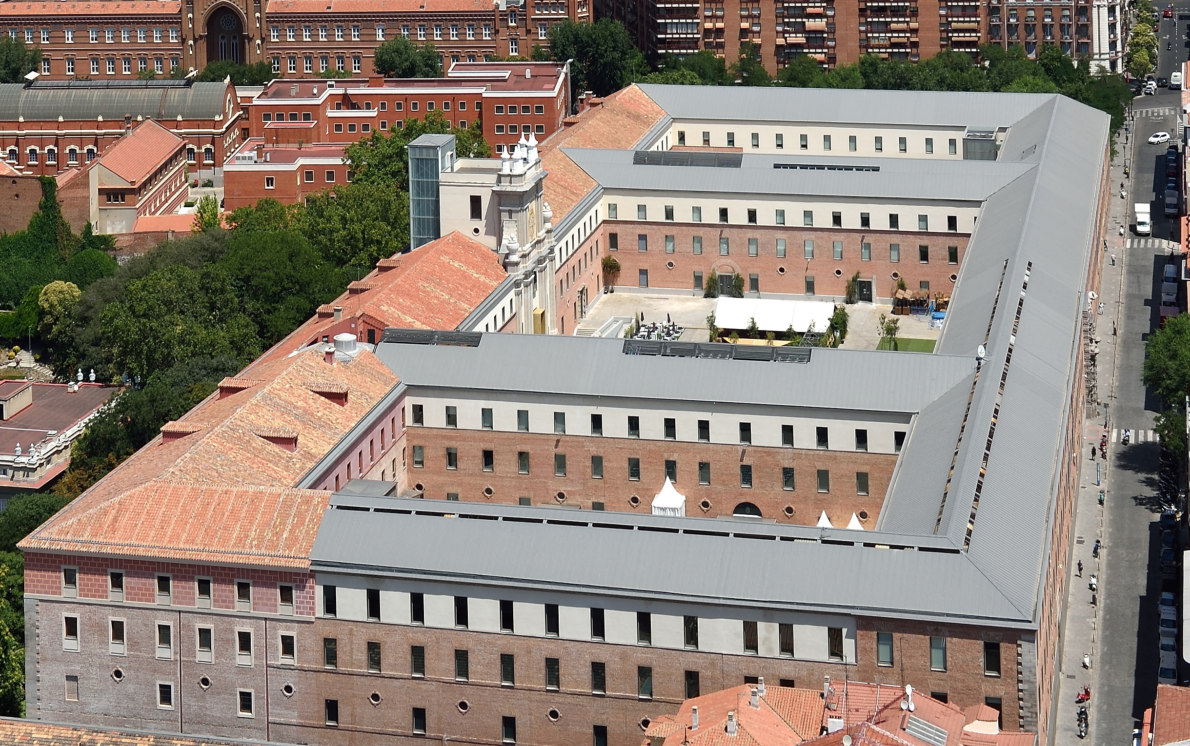 Cuartel de Conde Duque and Madrid skyline